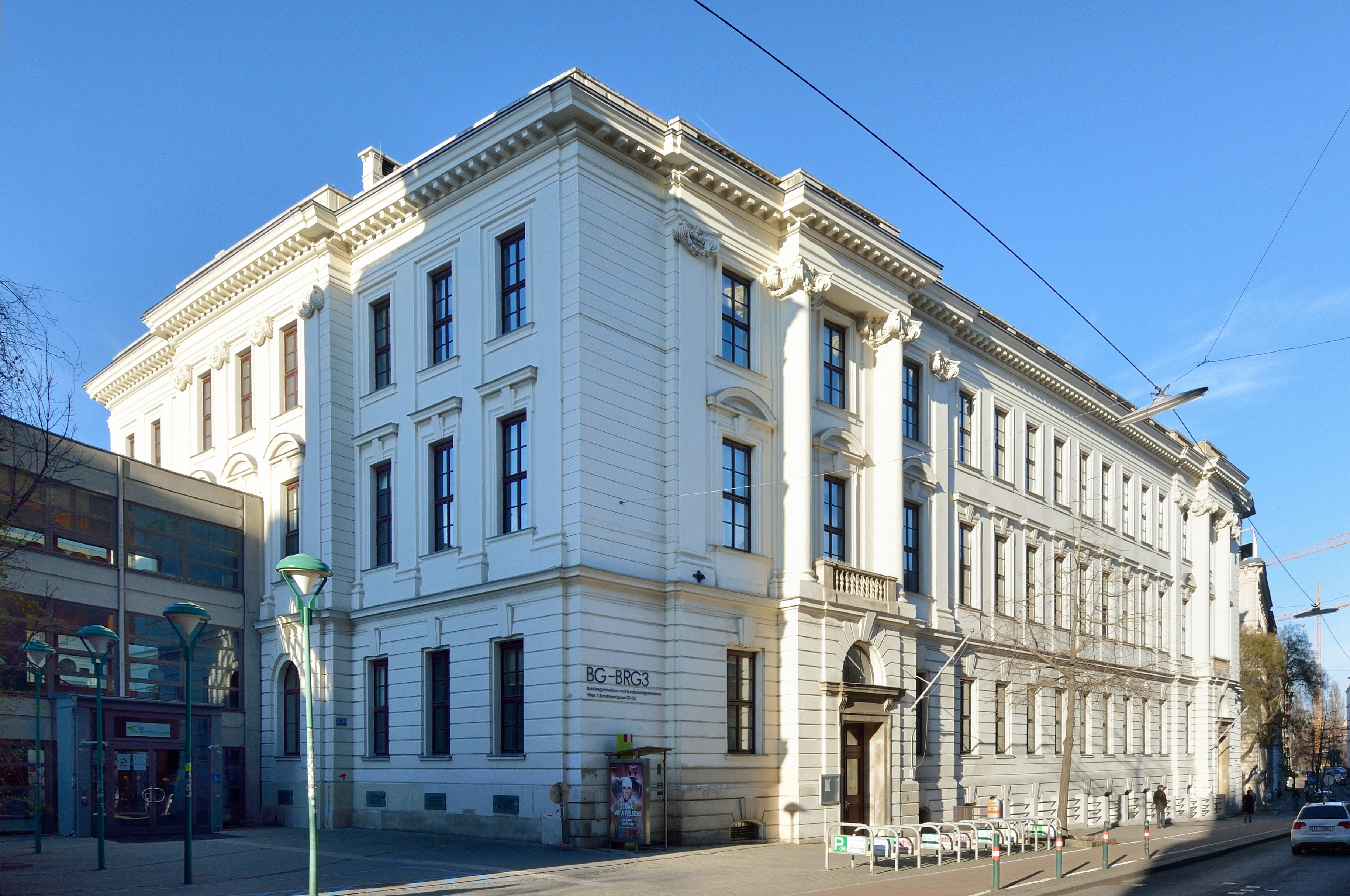 Landstrasser Gymnasium (High School)